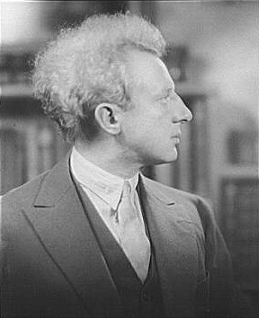 Title Portrait photograph of Leopold Stokowski Contributor Names Genthe, Arnold, 1869-1942, photographer Created / Published between 1926 and 1942; from a negative taken 1926 Nov. 3. Subject Headings - Stokowski, Leopold,--1882-1977. Format Headings Lantern slides. Portrait photographs. Notes - Title devised. - Purchase; Genthe Estate; 1942 or 1943. - ID: LC-G412-5023-005; 1926 Nov. 3 Medium 1 slide : lantern ; 4 x 5 in. or smaller. Call Number/Physical Location LC-G4085- 0405 [P&P]